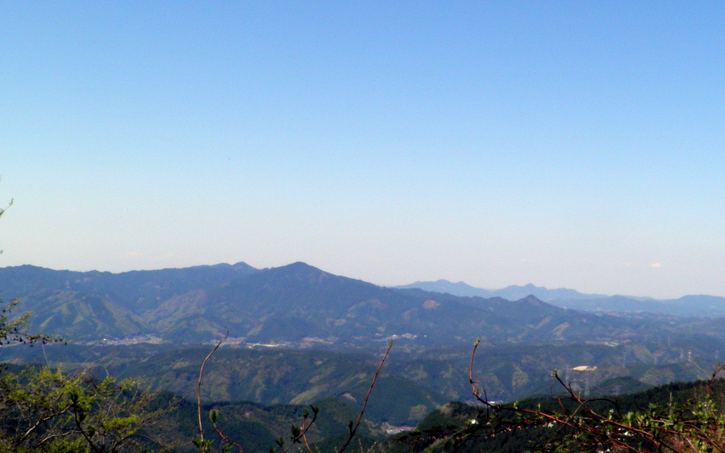 Mount Ryumon (Ryumondake) in Yoshino Town, Nara Prefecture, Japan